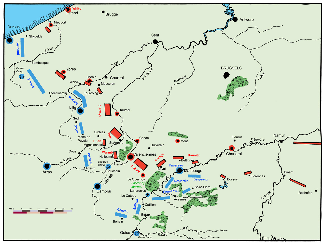 Positions of the opposing armies in early April before the opening of the campaign.